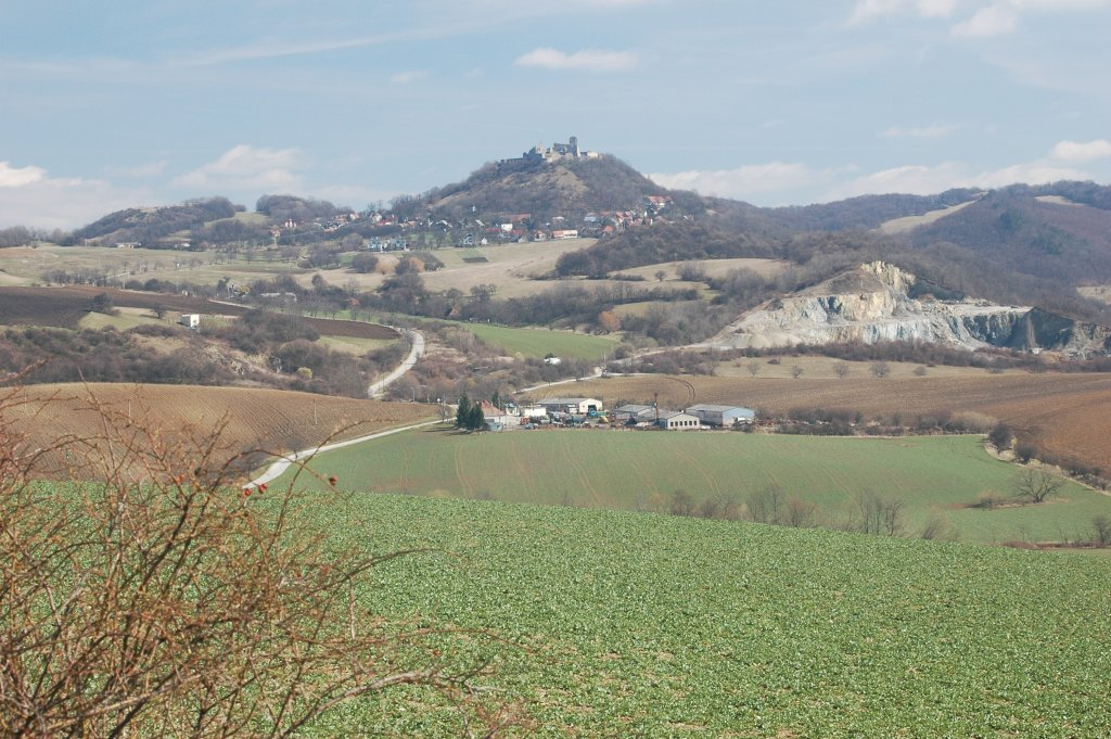 Podbranč, view from the west